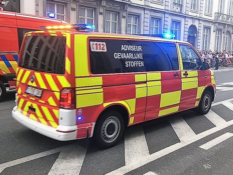 Dangerous Substances Advisor (DSA) vehicle during the National Parade on July 21, 2018